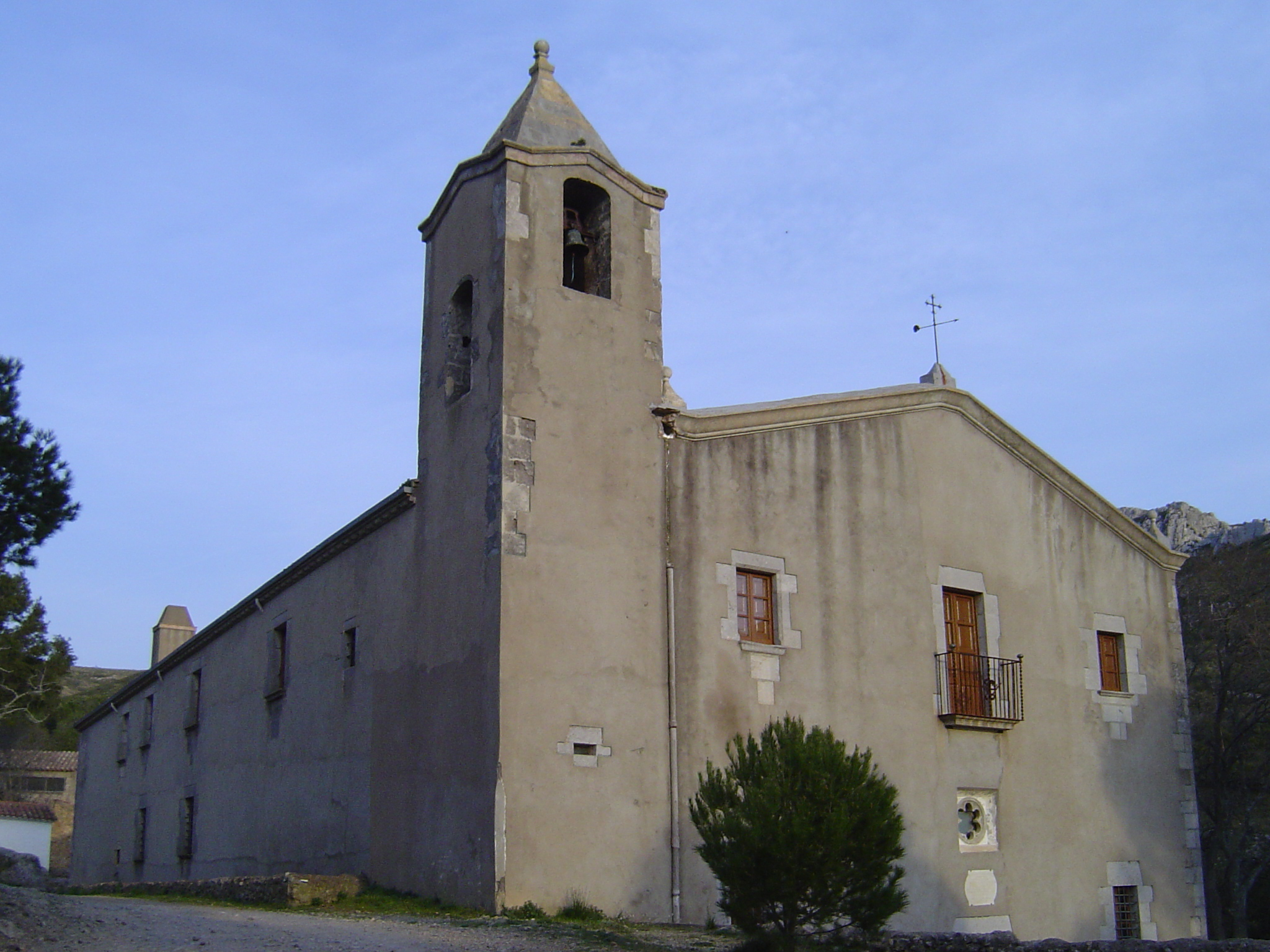 Ermita de Santa Caterina (east facade and side) with a bell. Valley of Santa Caterina, near Torroella de Montgrí, Catalonia